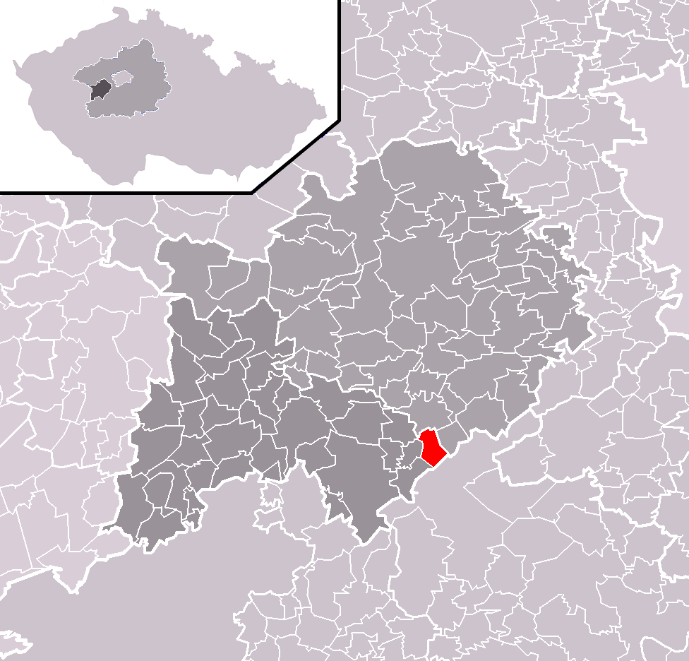 Location of Vižina municipality within Beroun District and administrative area of Hořovice as a Municipality with Extended Competence.